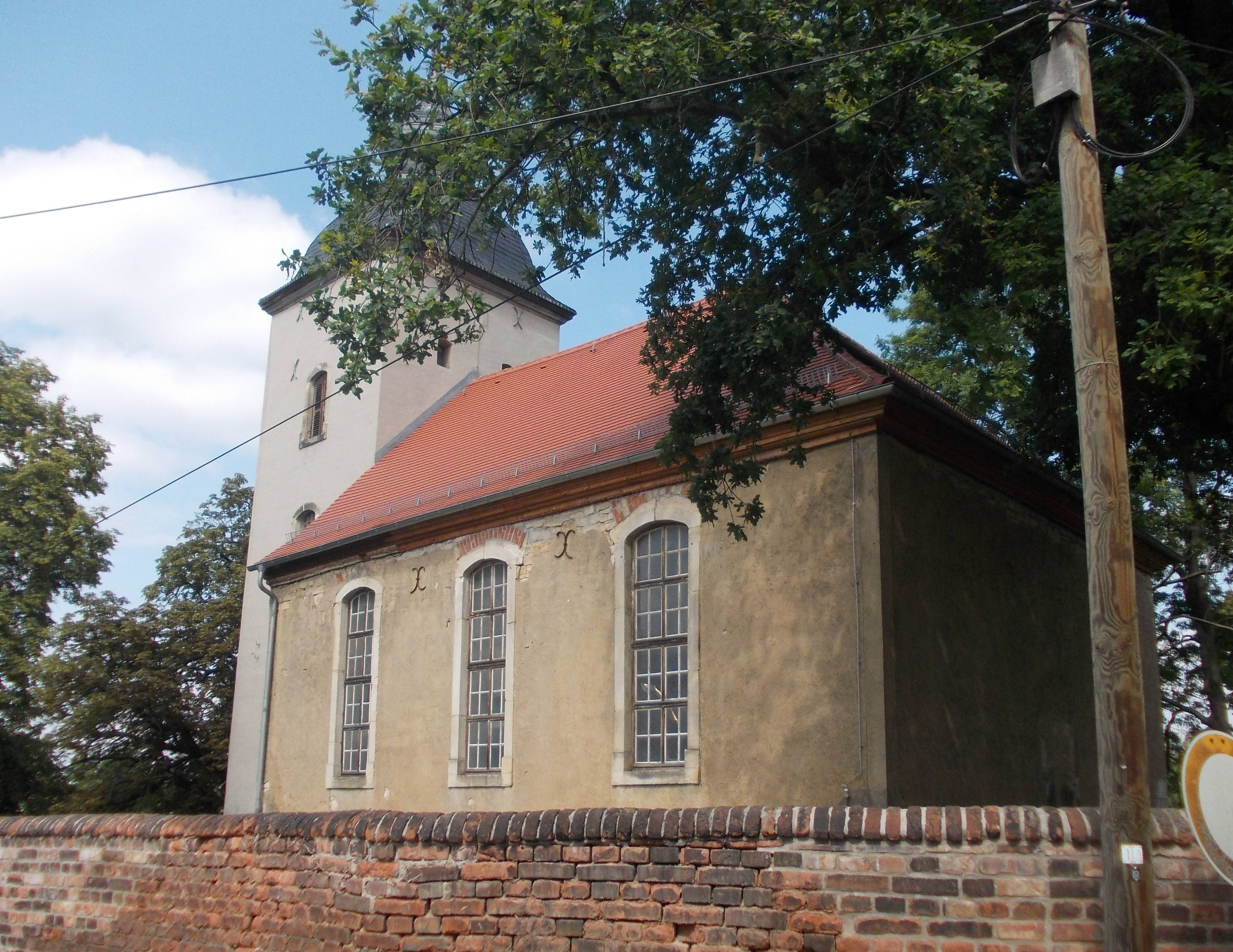 Muschwitz church (Lützen, district: Burgenlandkreis, Saxony-Anhalt)